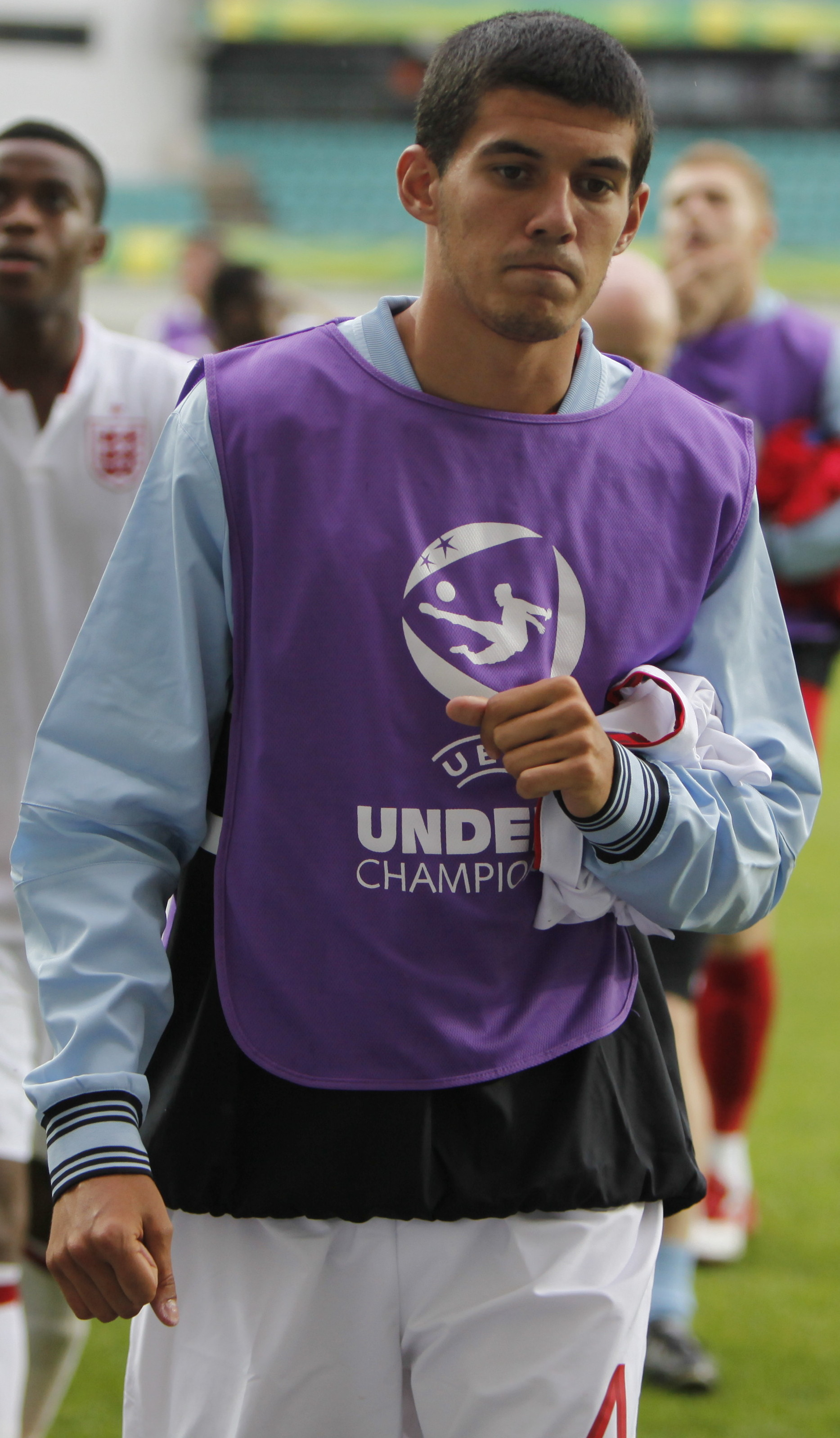 Conor Coady playing for England U-19